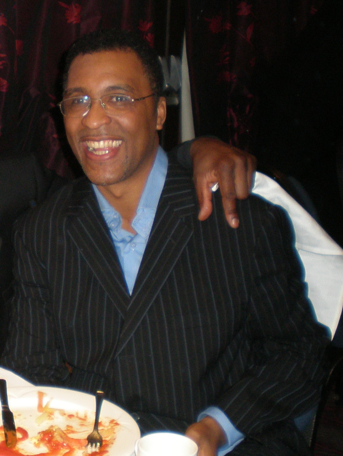 Boxer Michael Watson, who suffered career ending brain damage in 1991